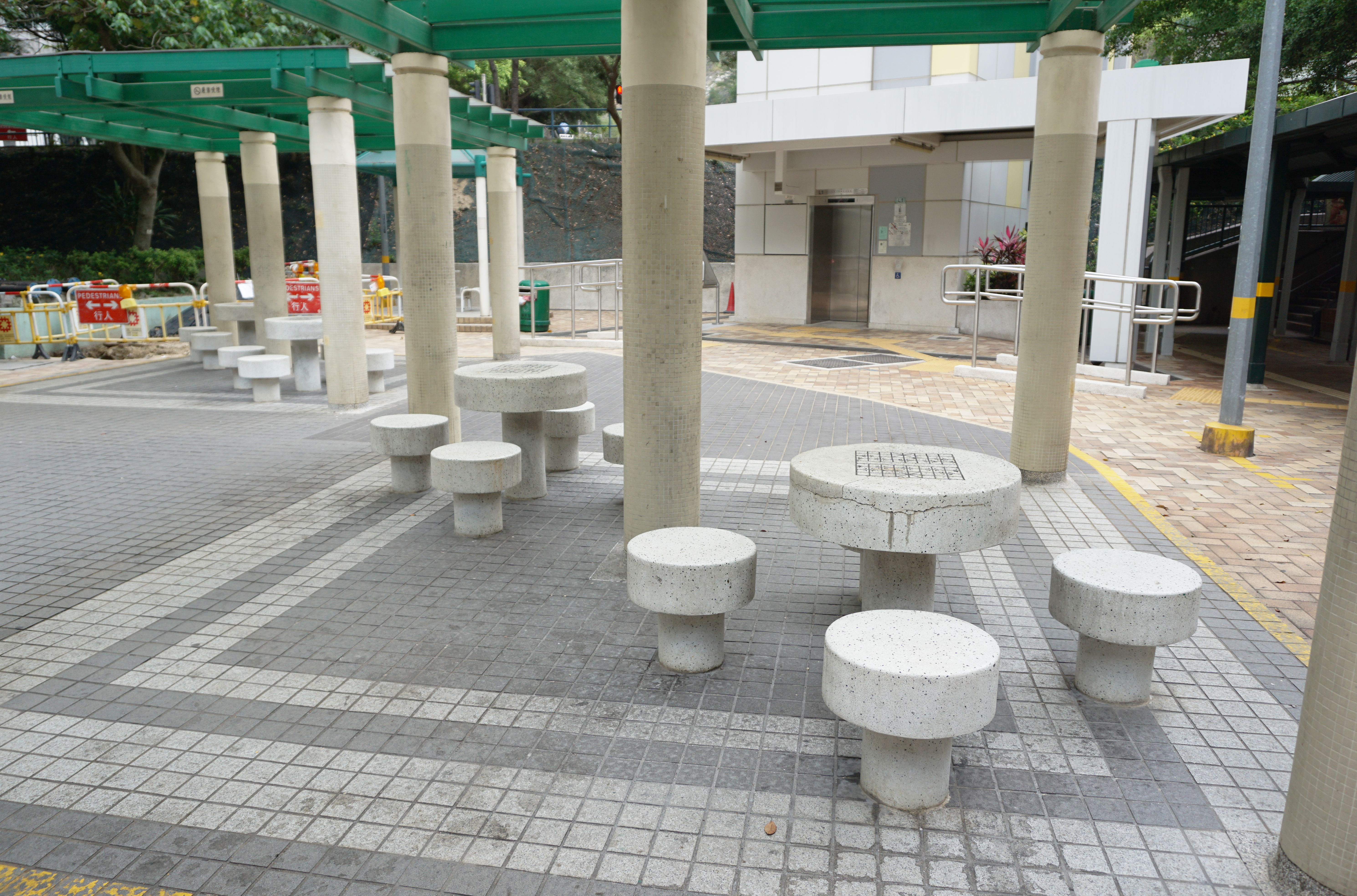 Shun Tin Estate in Sau Mau Ping, Hong Kong.